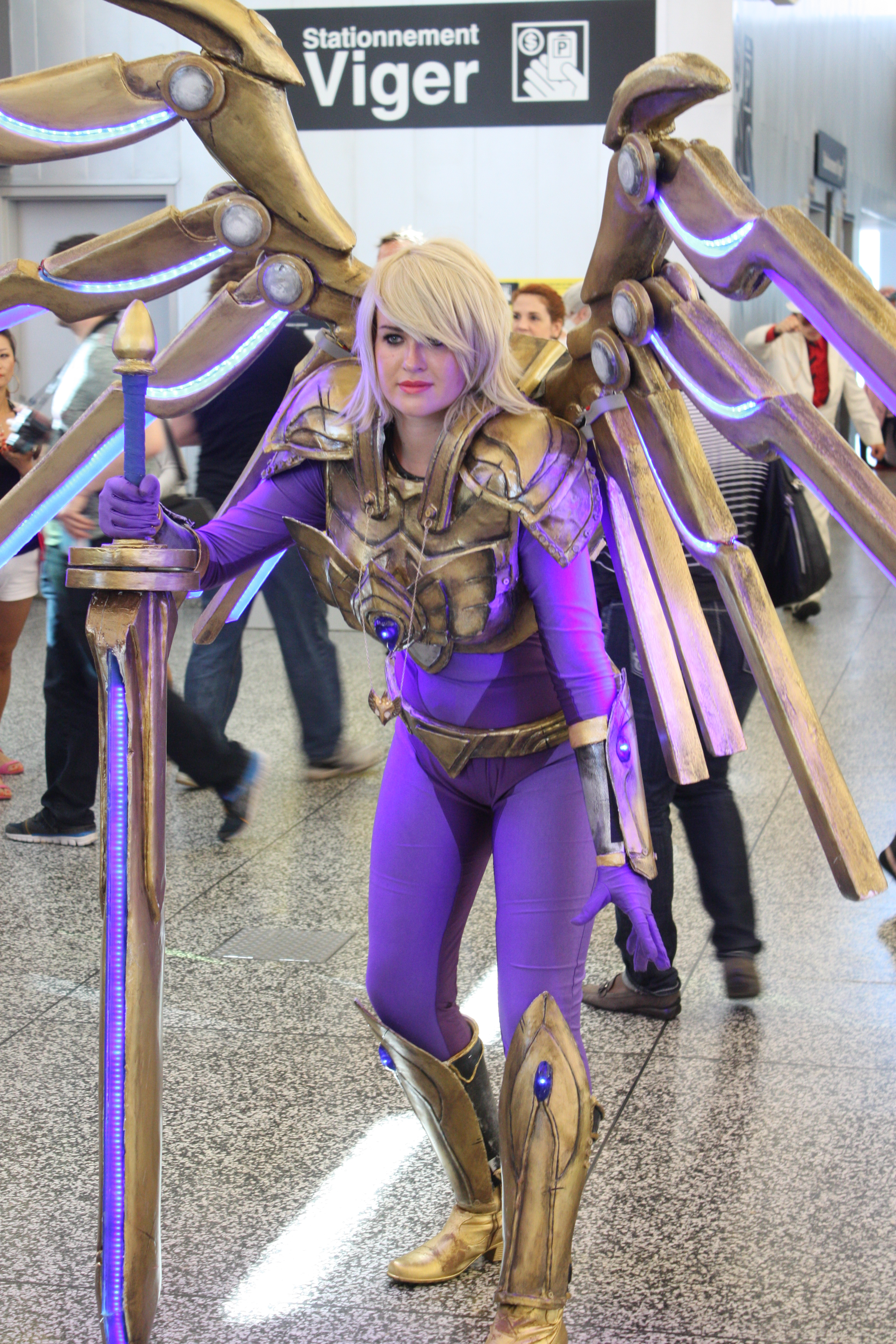 Otakuthon 2014: Aether Wing Kayle